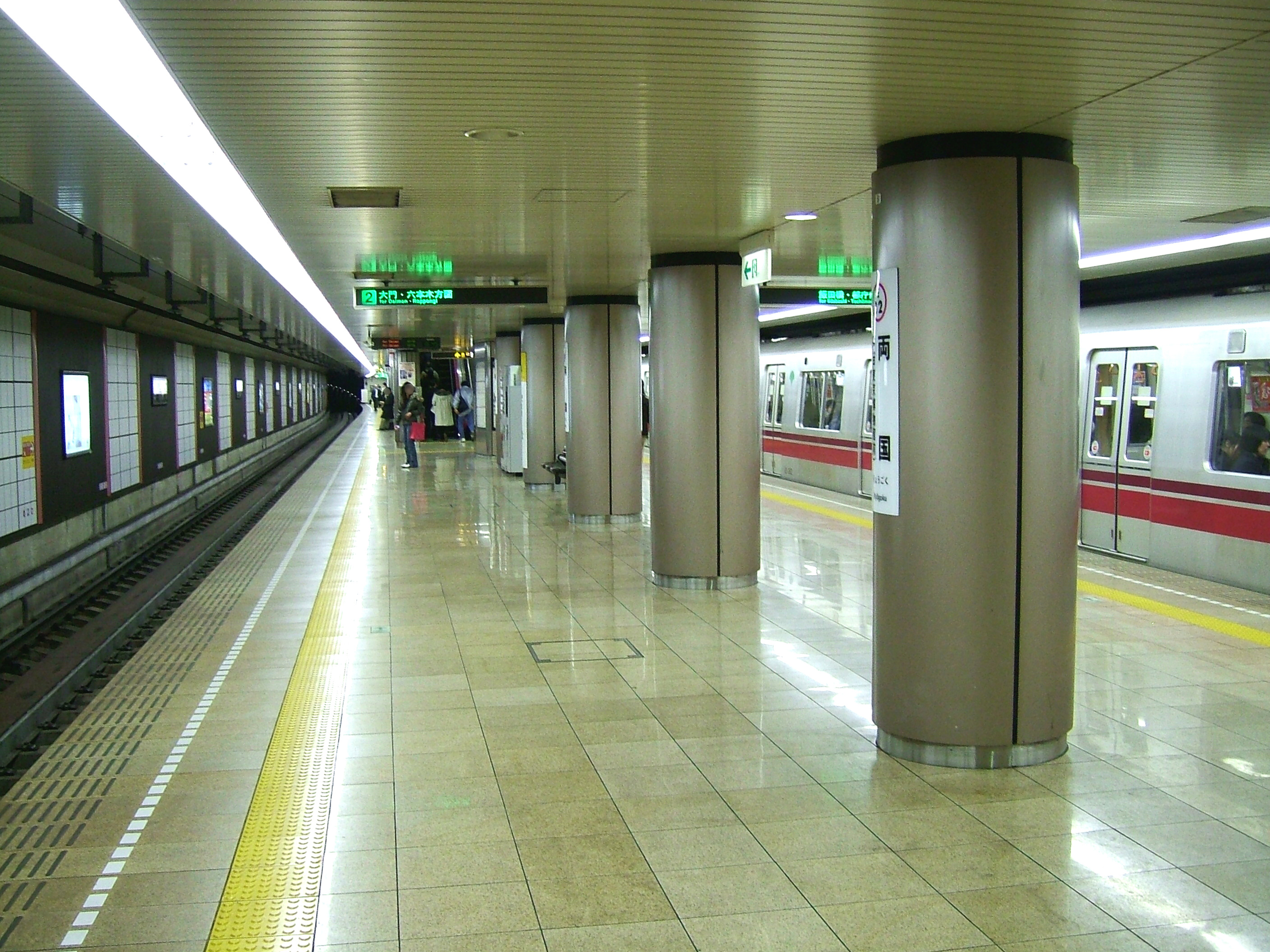 The platform at Ryōgoku Station on the Toei Ōedo Line in Sumida city, Tokyo, Japan